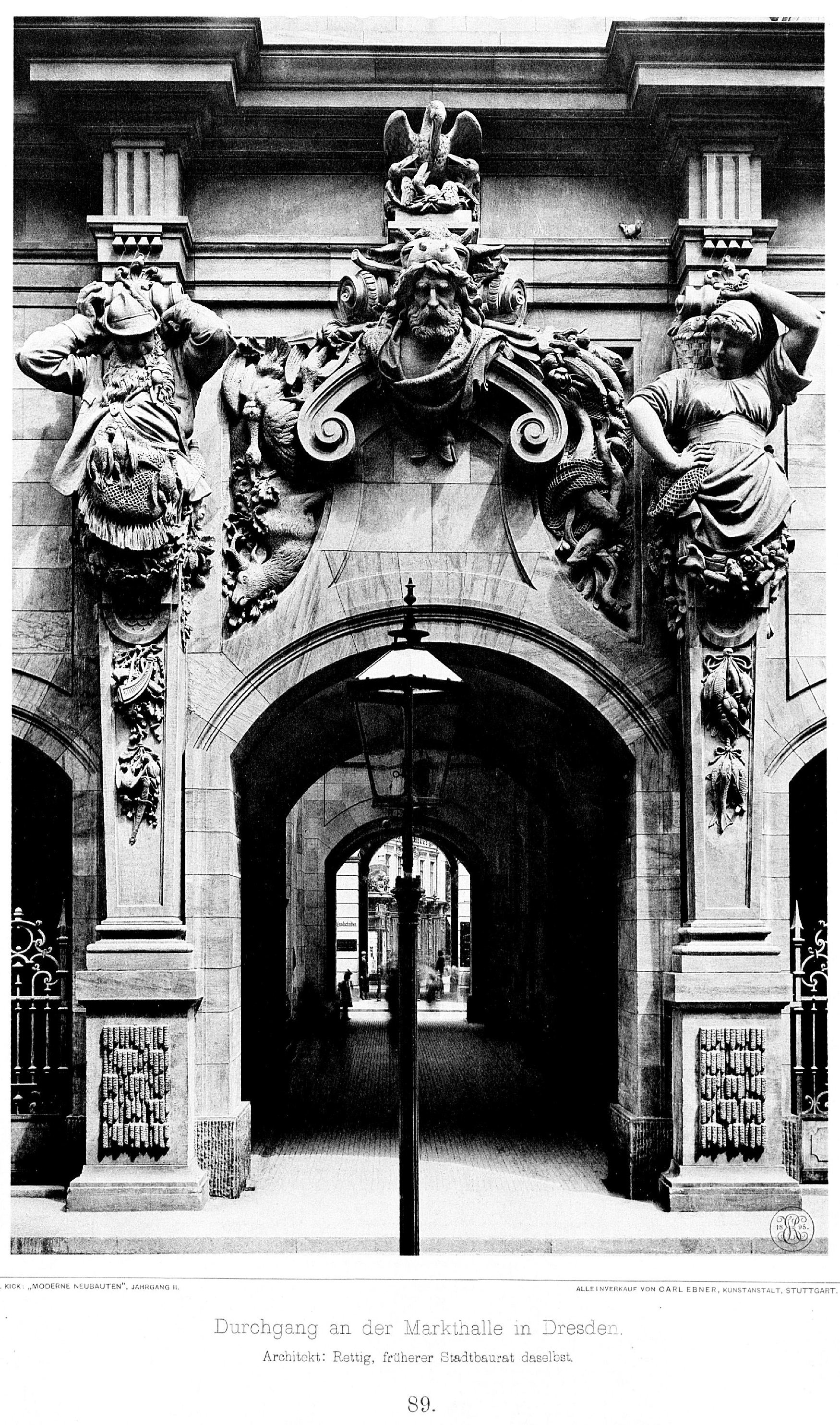 Markthalle_Dresden,_Durchgang,_Architekten_Rettig_Stadtbaurat,_Tafel_89,_Kick_Jahrgang_II.jpg